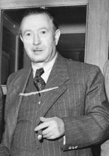 Aufbauminister in HamburgSofortprogramm für 150 000 Wohnungen.In einer Entschliessung zur Finanzierung des sozialen Wohnungsbaus halten die Aufbauminister der Westzone und Westberlins, die am 10. und 11. Juni 1949 in Hamburg tagten, den sofortigen Bau von 150 000 Wohnungen in der Doppelzone für moeglich. Hierfür wären 1,5 Milliarden Mark erforderlich, die in Form einer Wohnungsabgabe aus dem kleinen Lastenausgleich und aus den Haushaltsmitteln der Länder abgezweigt werden könnte.Unser Bild zeigt die Aufbauminister in Hamburg.V. l. n. r.: Oberbaudirektor Meier-Ottens (Hamburg) - Minister Wittstock (Niedersachsen) - Minister Heinrich Zinnkann (Hessen) - Minister Steinhoff (Nordrhein-Westfalen) und Stadtrat Niklitz (Berlin).11-6-49 dpd